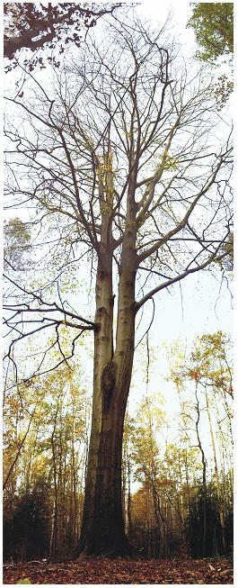 Fagus sylvatica in the forest of Rabenstein